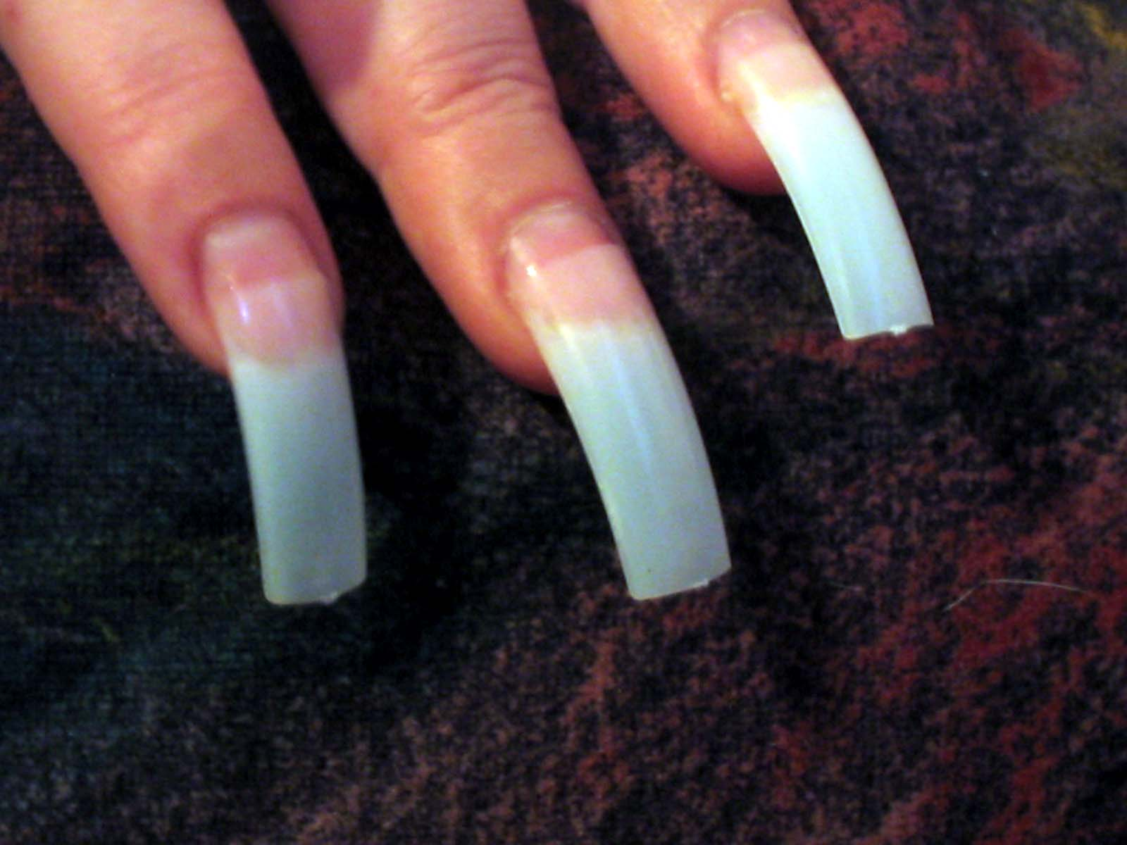 tips added, but not yet modeled, august 2005